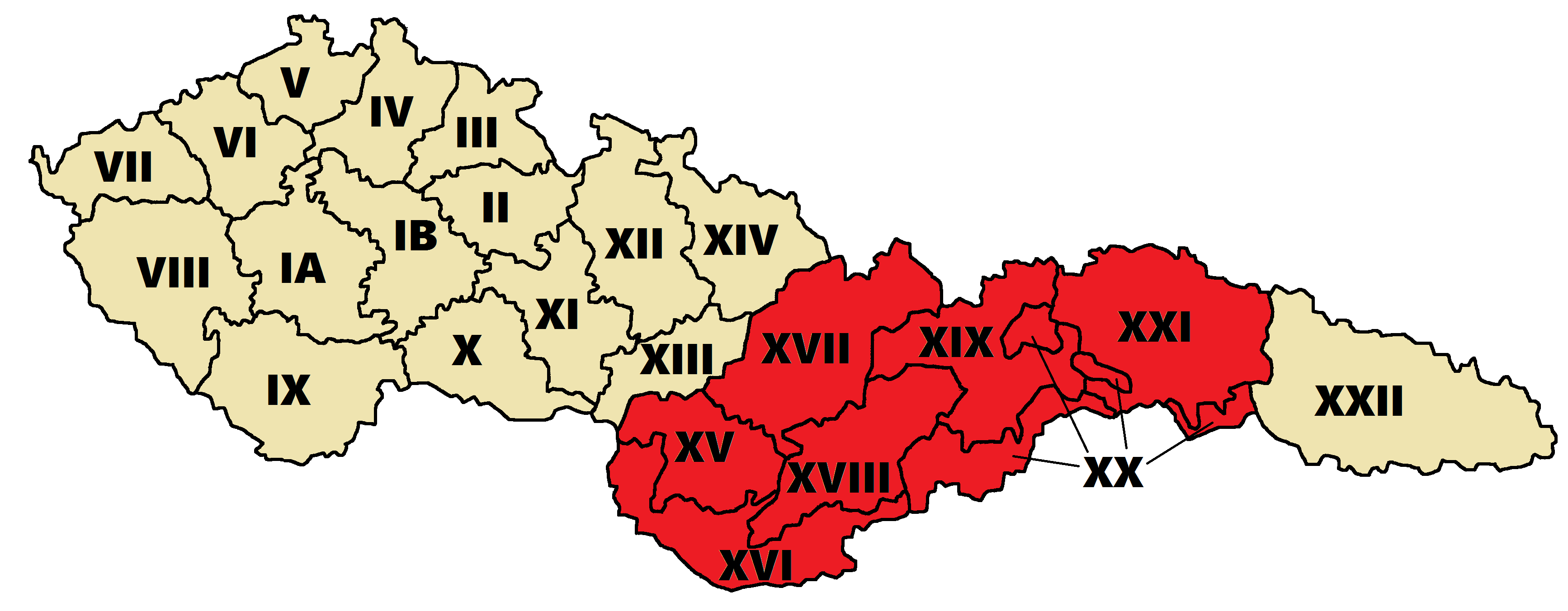 Based on File:Electoral districts (Chamber of Deputies) in Czechoslovakia 1925, 1929, 1935 (numbered).png